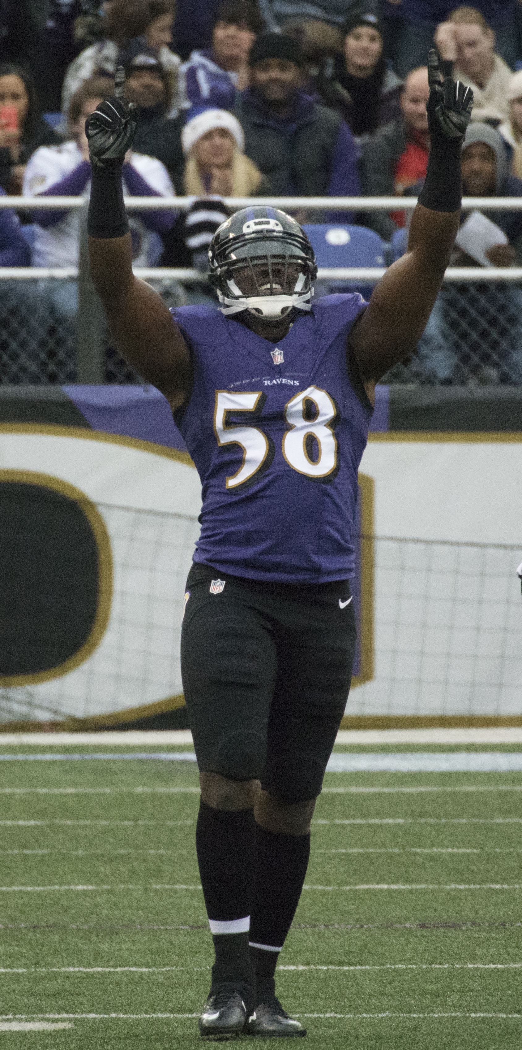 Jaguars at Ravens 12/14/14